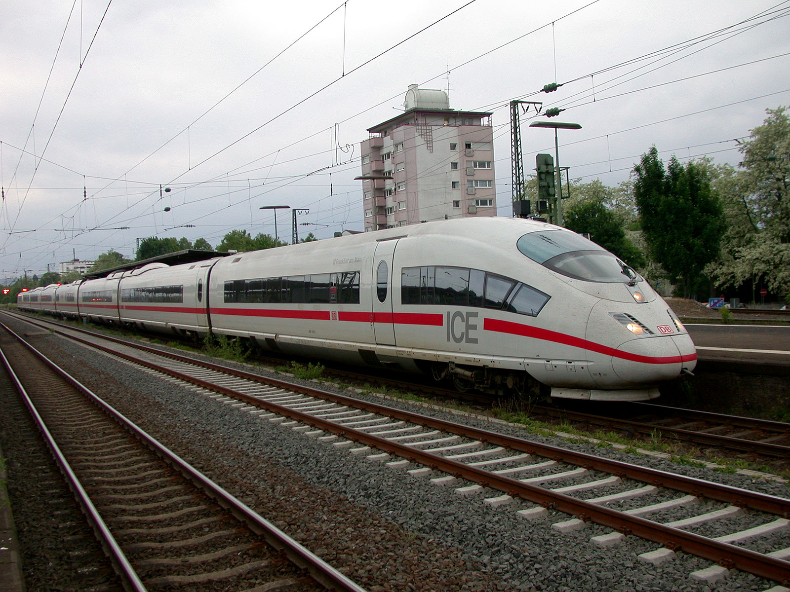 3rd Generation ICE "Frankfurt am Main", photo taken in Frankfurt-Höchst